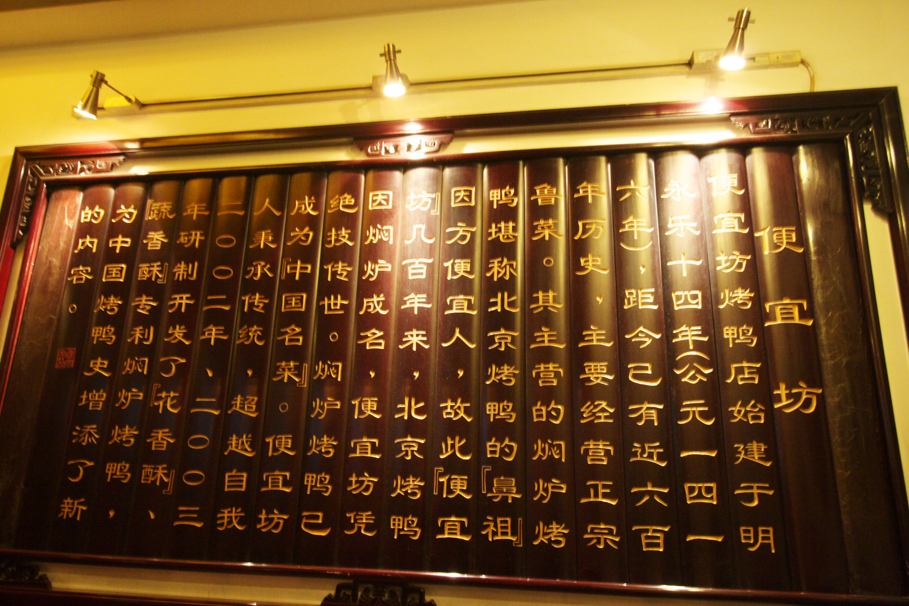 The Bianyifang restaurant in Beijing. It is famous for its Peking Duck.